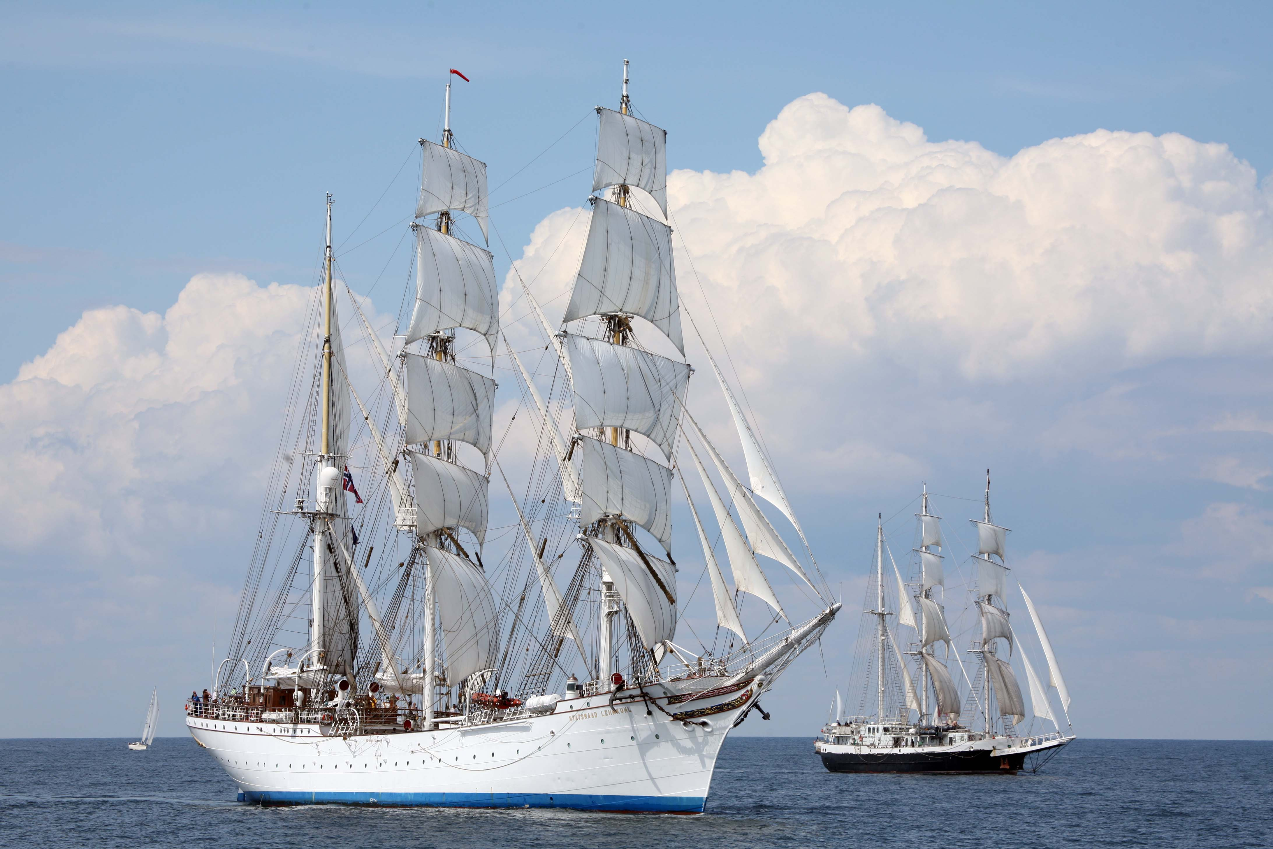 Statsraad Lehmkuhl (left) and STS Lord Nelson during the Tall Ships' Races in the Baltic Sea, 2007